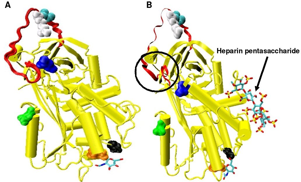 This image was created using a combination of VMD, powerpoint openoffice and GIMP and uses the pdb files 2ANT (model A) and 1AZX (model B).